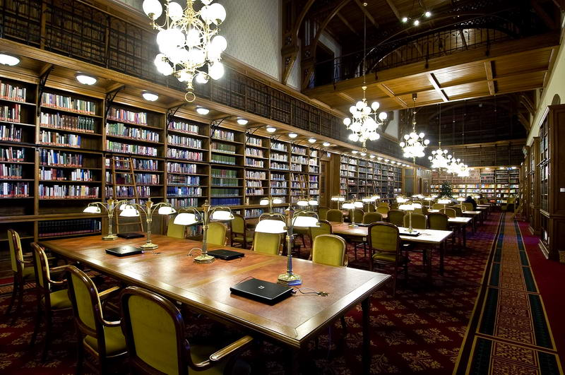 Library of the Hungarian Parliament.